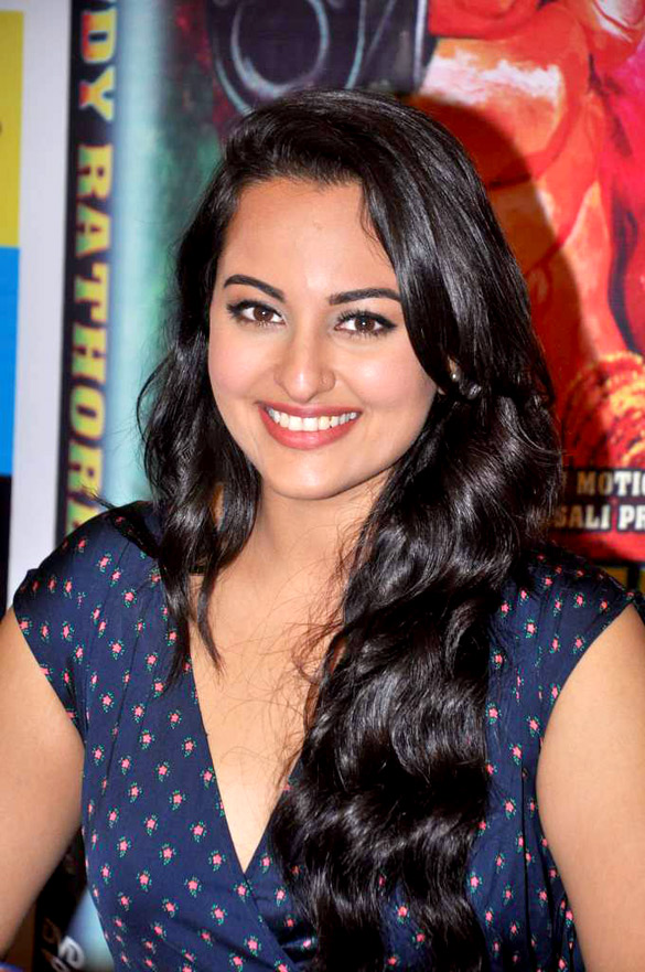 Sonakshi Sinha at the DVD launch of 'Rowdy Rathore'